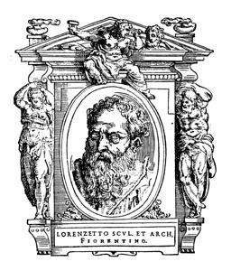 Illustratio from "Le Vite" by Giorgio Vasari, edition of 1568. For the artist portrayed see filename